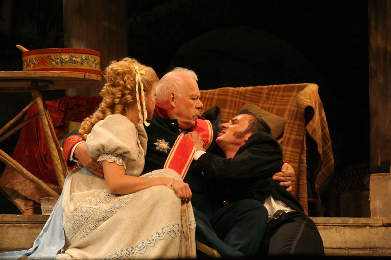 A scene from the play Maly Theatre «Weddings, a wedding!!»